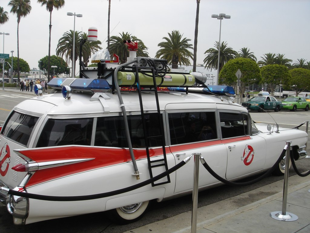 Ghostbusters car at Electronic Entertainment Expo 2009, parked outside of West Hall.